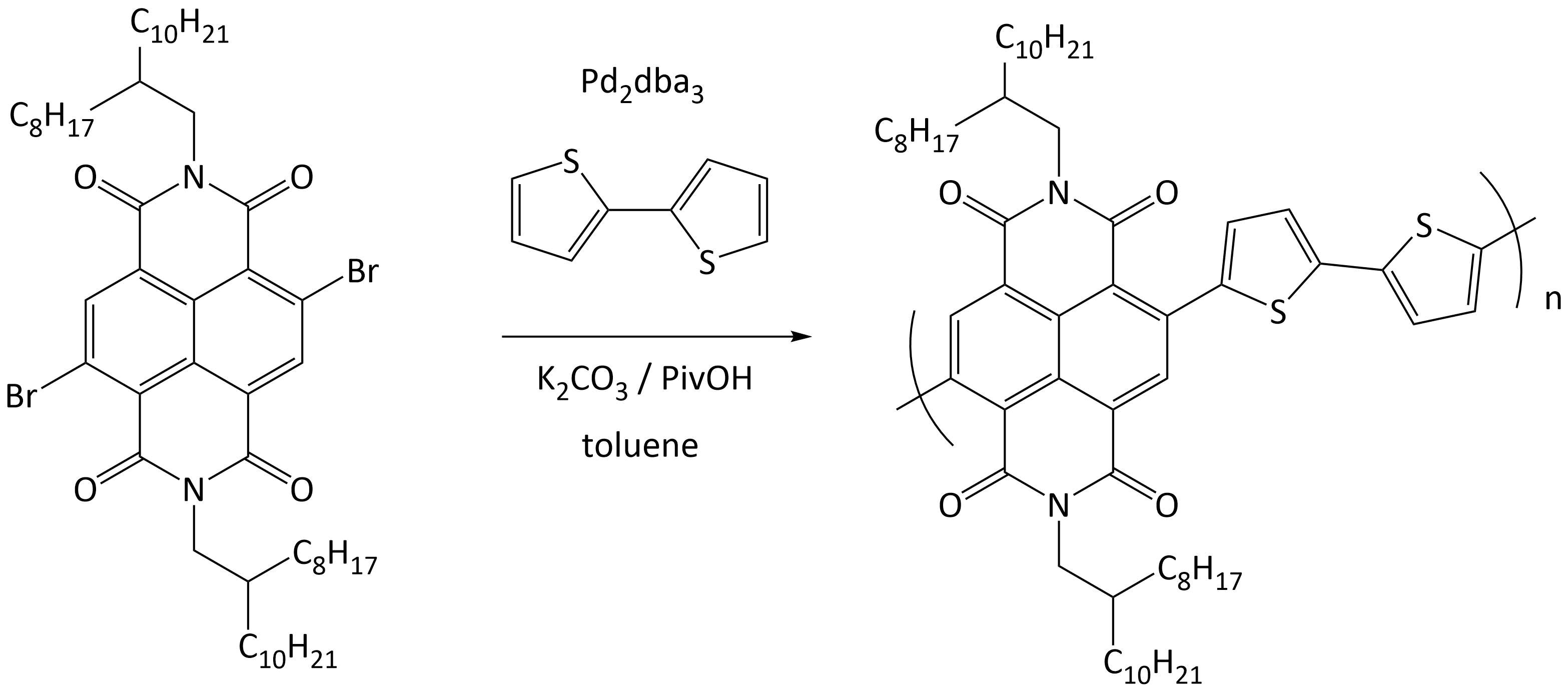 direct arylation polycondensation of N2200